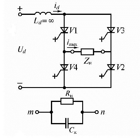 DerevenetsA